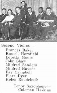 Scan from 1921 Topeka High School year book showing Coleman Hawkins (spelled "Haskins" with saxophone in the orchestra.